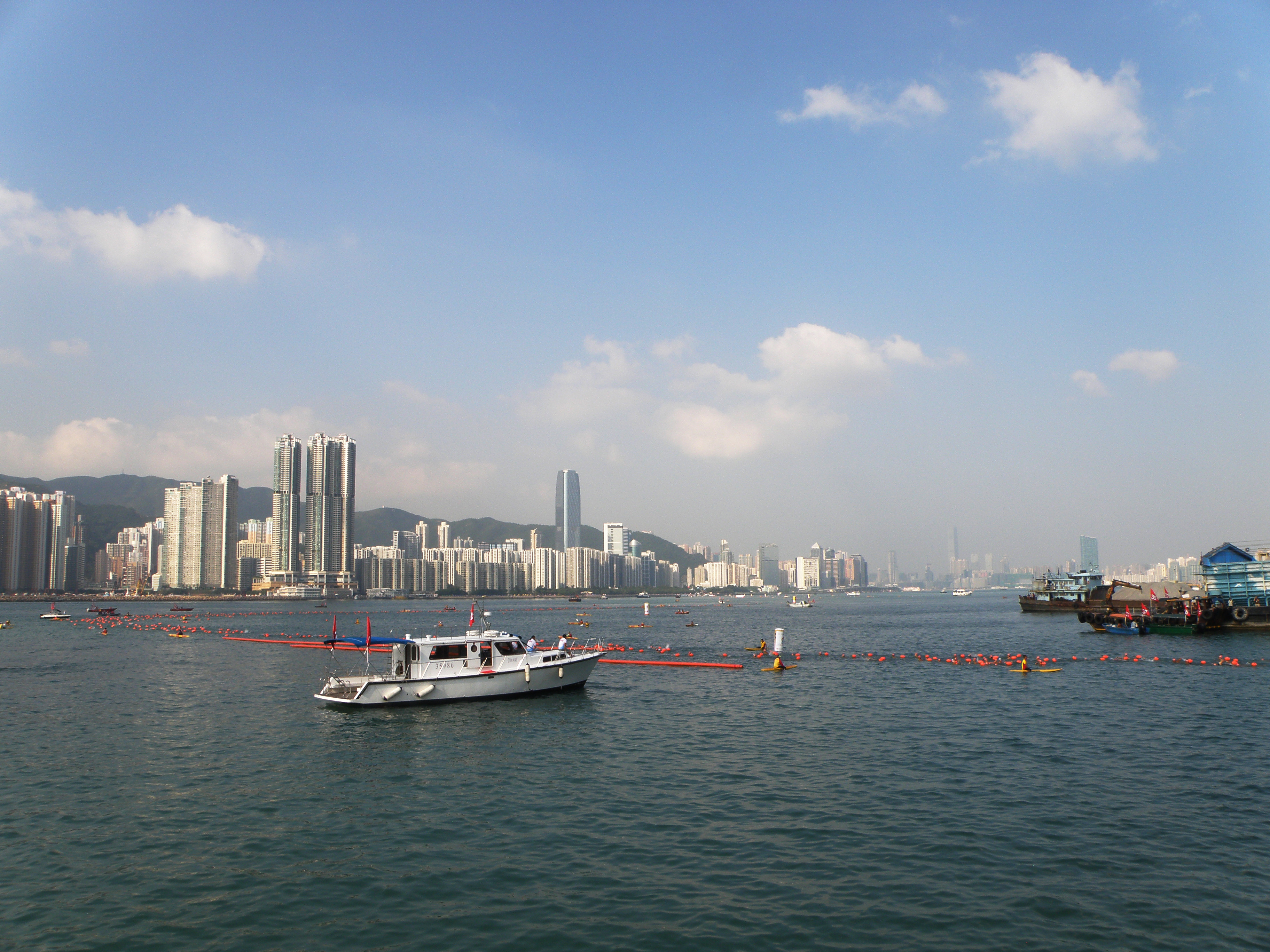 New World Harbour Race in Victoria Harbour, Hong Kong.